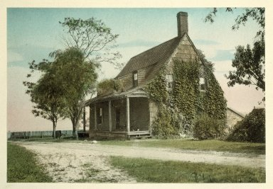 Jans Martense Schenck house also called the Schenck-Crooke House The house was rebuilt inside the Brooklyn Museum, Schenck Collection